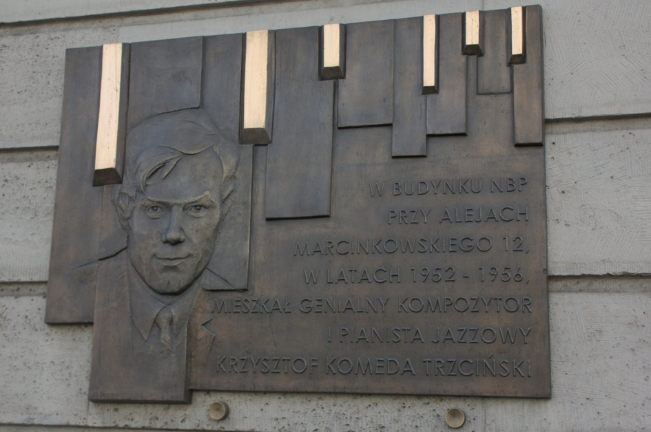 Memorial plaque of Krzysztof Komeda Trzciński hang on NBP building on Marcinkowski street in Poznan Poland, Polish composer. Made by artist Michal Selerowski